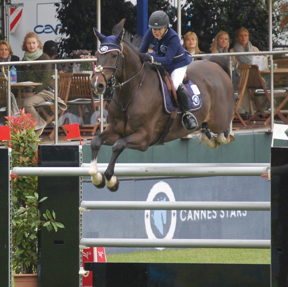 Margie Goldstein-Engle and Dicas (team rider of the Cannes Stars), 1st round for Global Champions League of Hamburg, 2019.